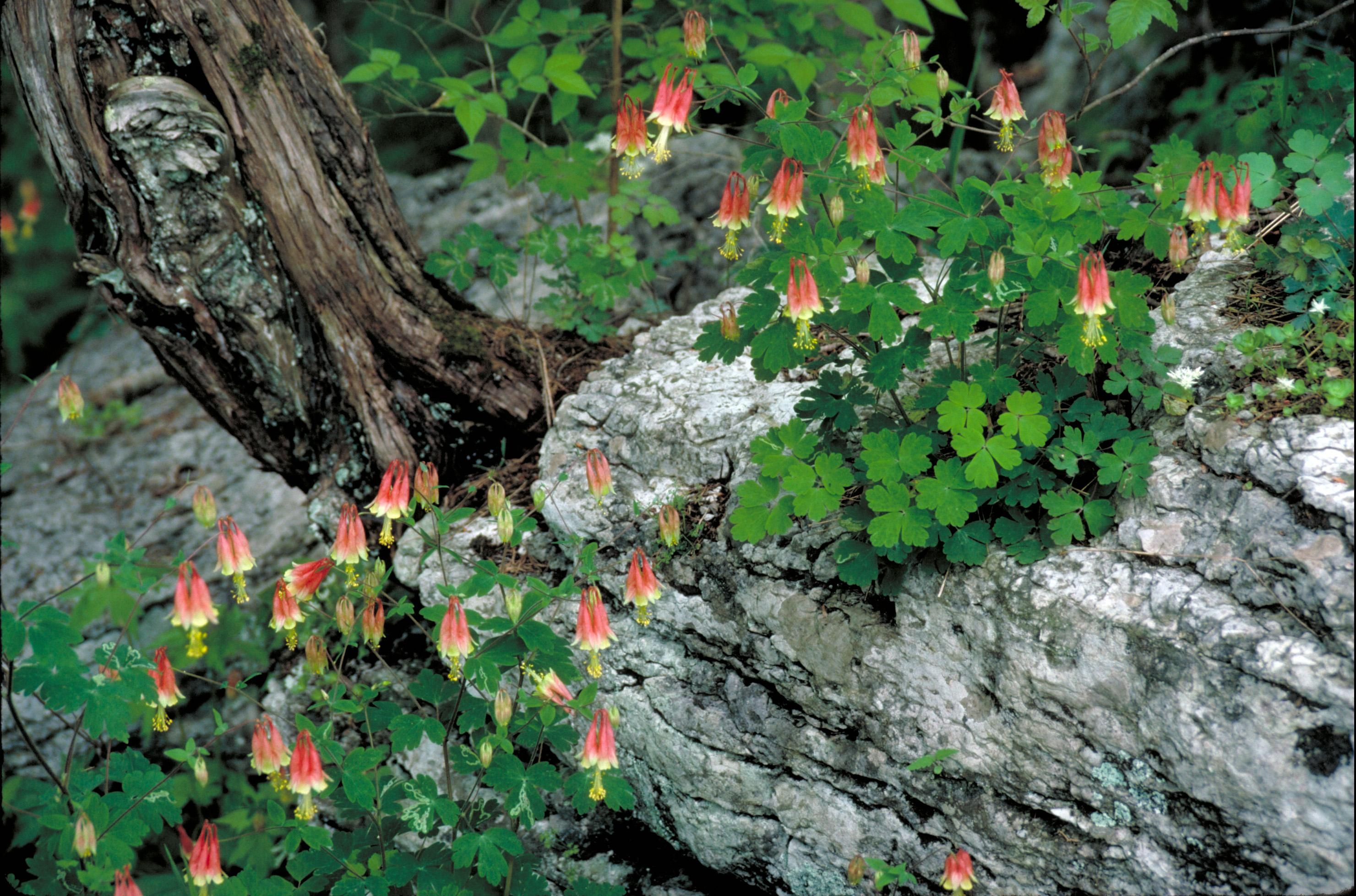 Image title: American columbine plant aquilegia canadensis Image from Public domain images website